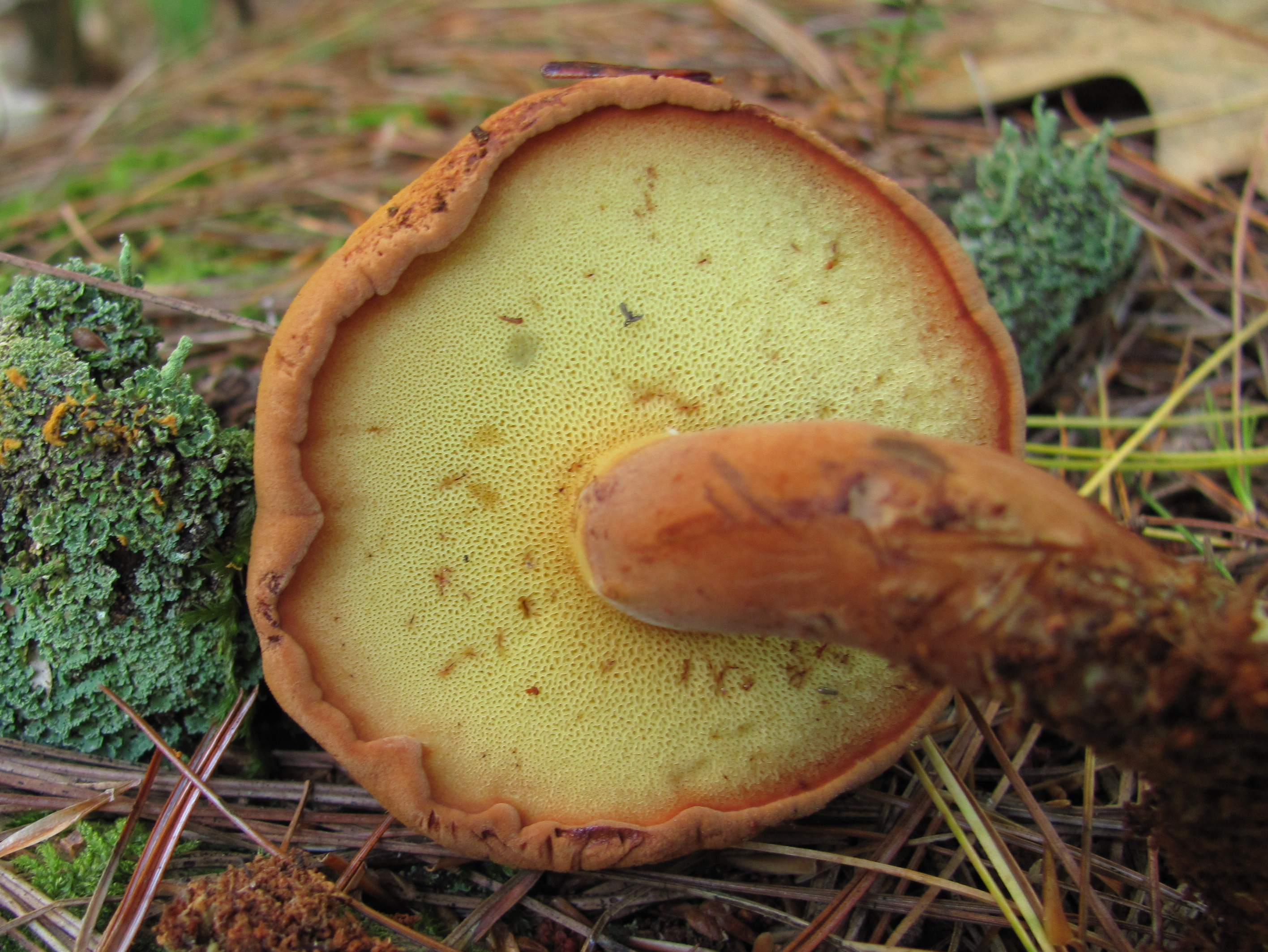 Pore surface of the bolete mushroom Buchwaldoboletus lignicola (Kallenbach) Pilat. Specimen photographed in Oneida Co., New York, USA.